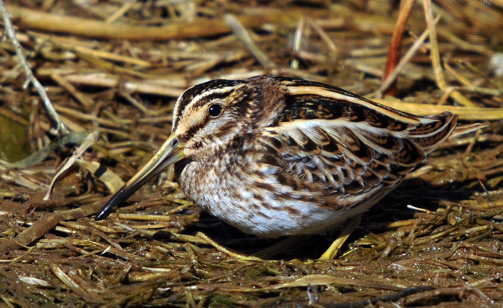 Jack Snipe Lymnocryptes minimus, Bismil, Turkish Kurdistan.